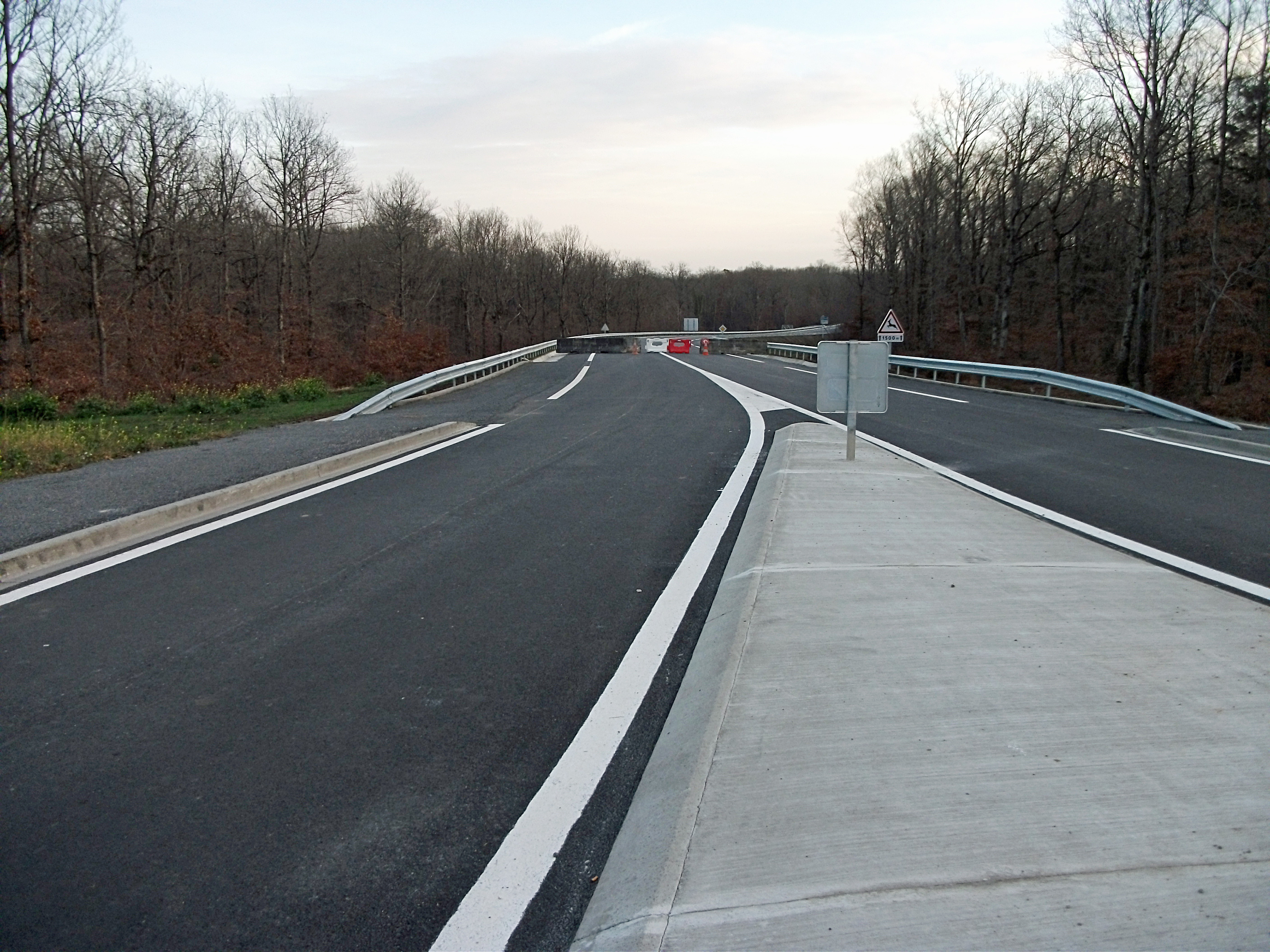 Contournement sud-ouest, now known as departmental road 906, towards Thiers (not yet opened) in Serbannes, Allier, Auvergne (Auvergne-Rhône-Alpes), France. [9619]